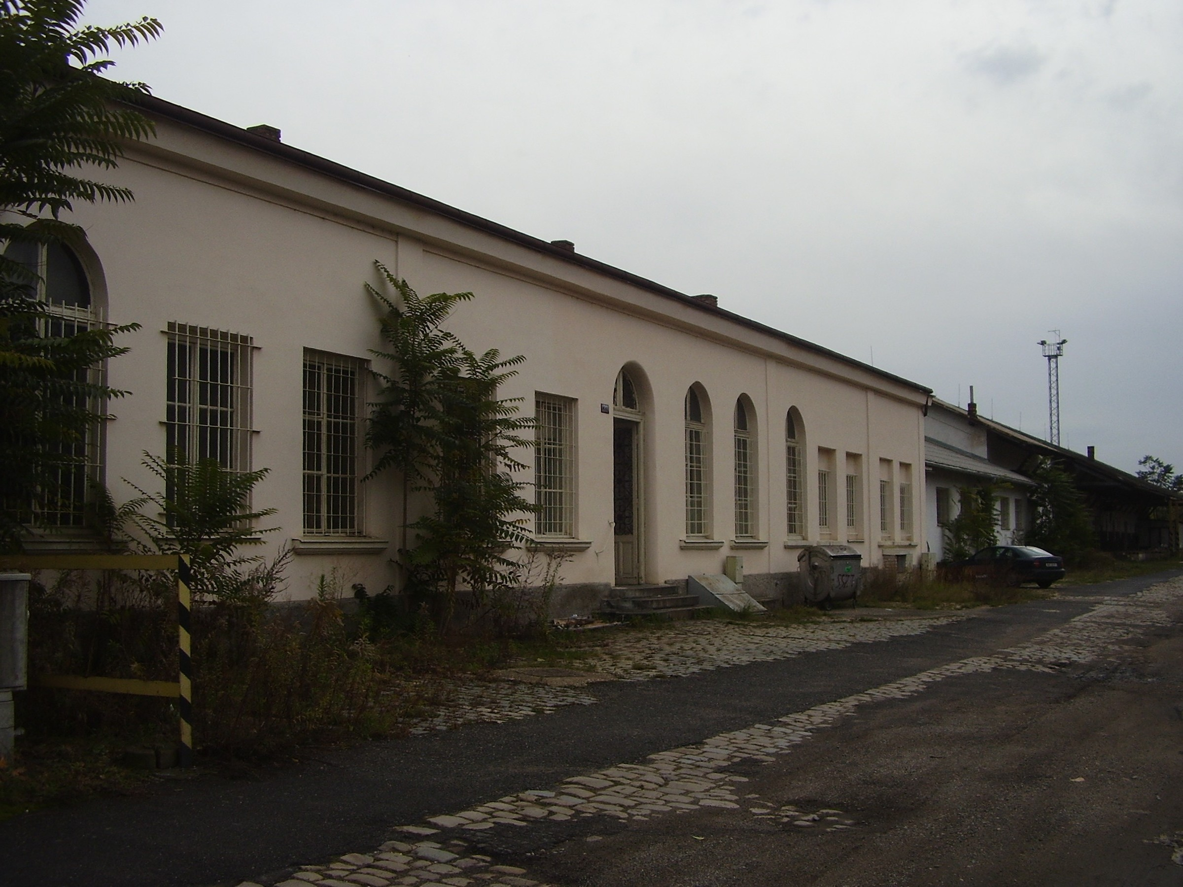 Train station of Buštěhradská dráha at Praha-Smíchov severní nástupiště